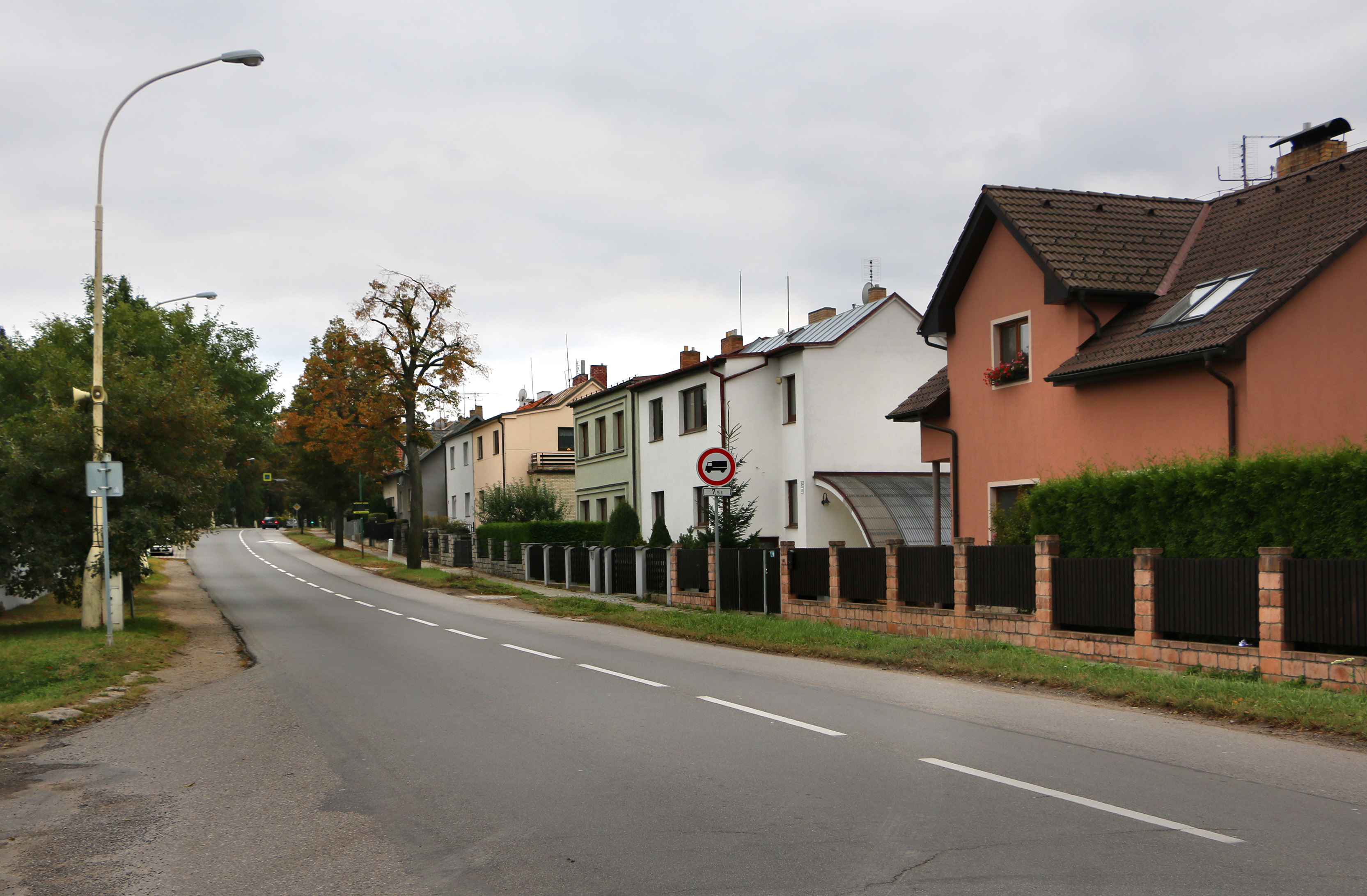 Sokolovská street in Bedřichov, part of Jihlava, Czech Republic.